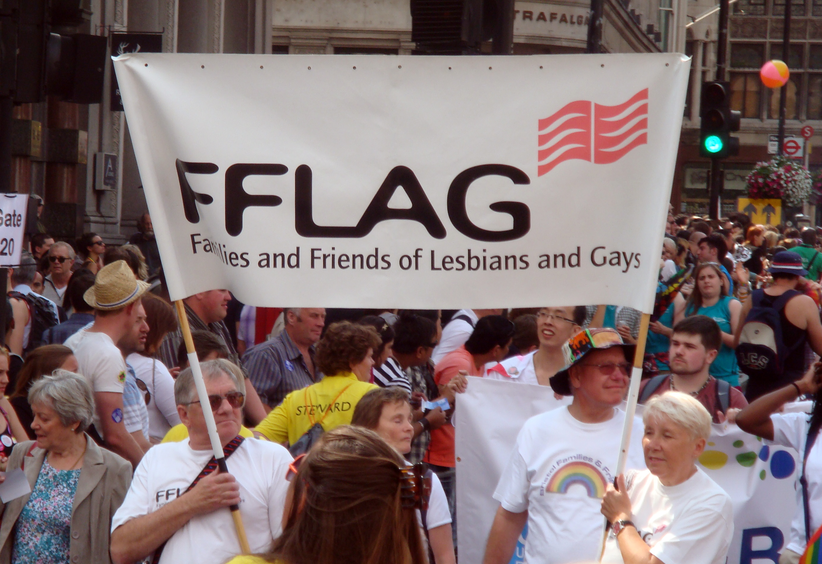 FFLAG group - Friends and families of lesbians and gays